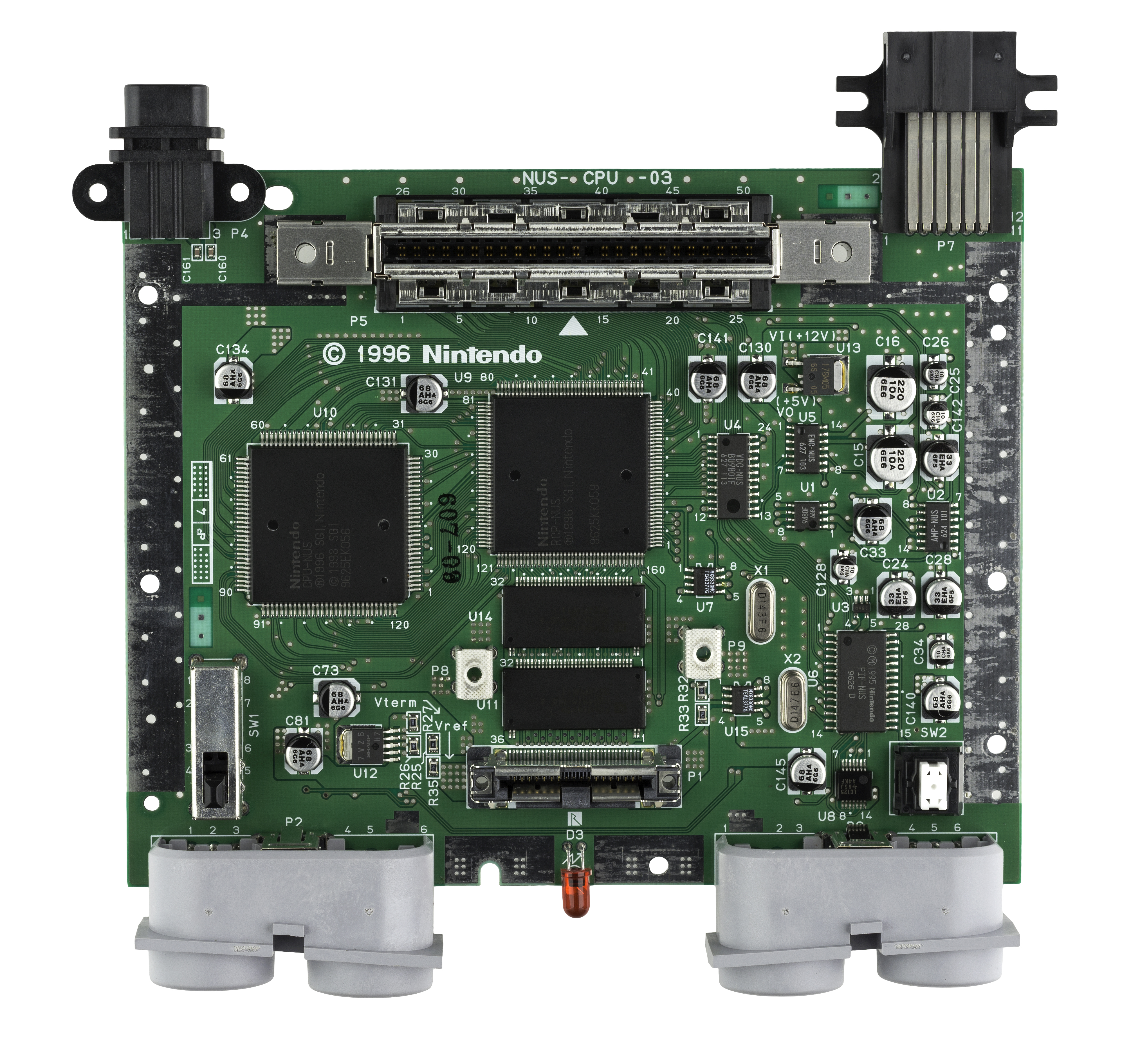 The motherboard of a Nintendo 64 video game console. This is a North American version, motherboard revision NUS-CPU-03